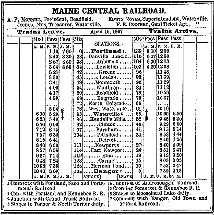 Maine Central Railroad Time Table (Portland-Bangor) 1867